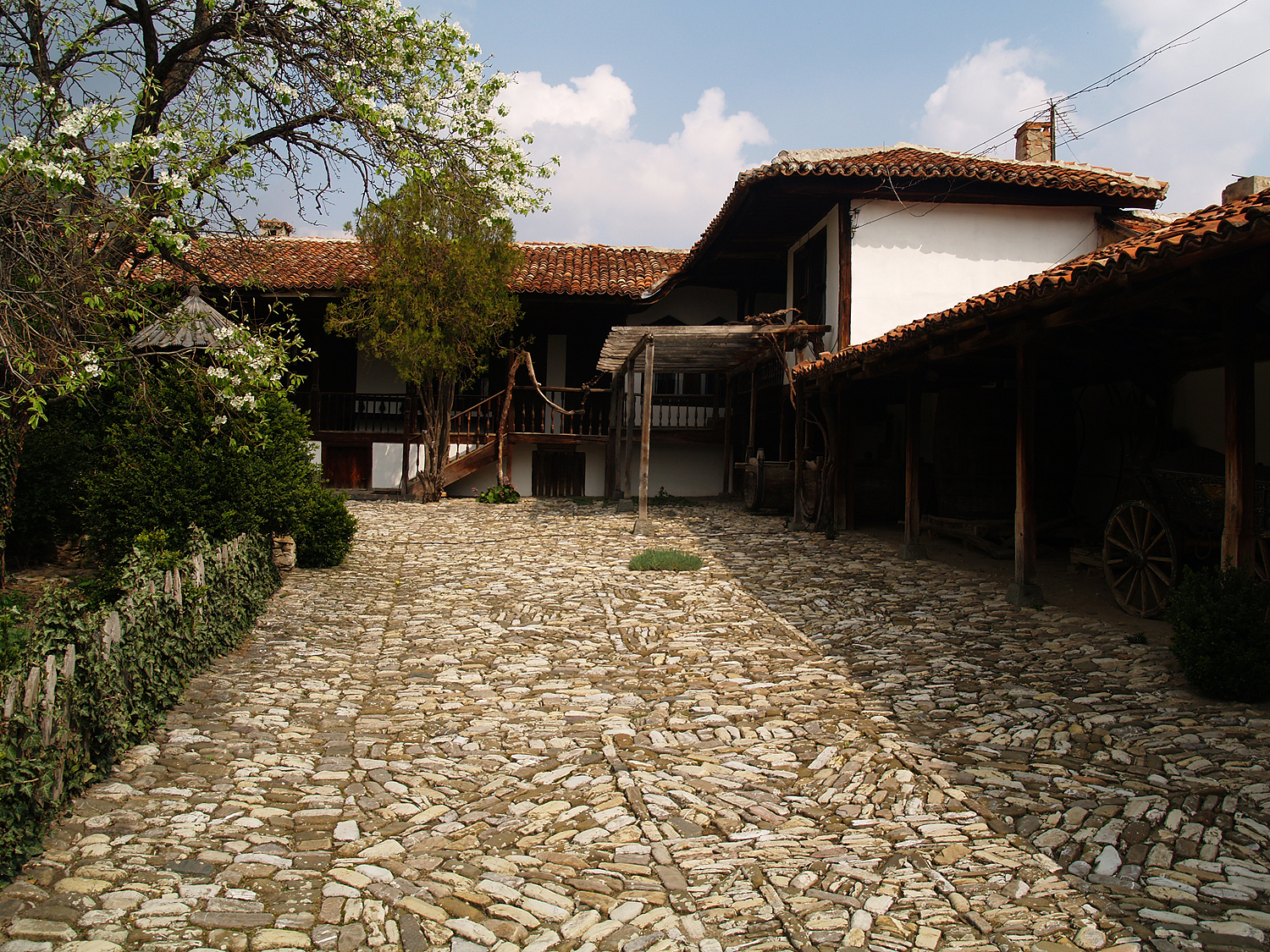 19-20th century Sliven lifestyle museum